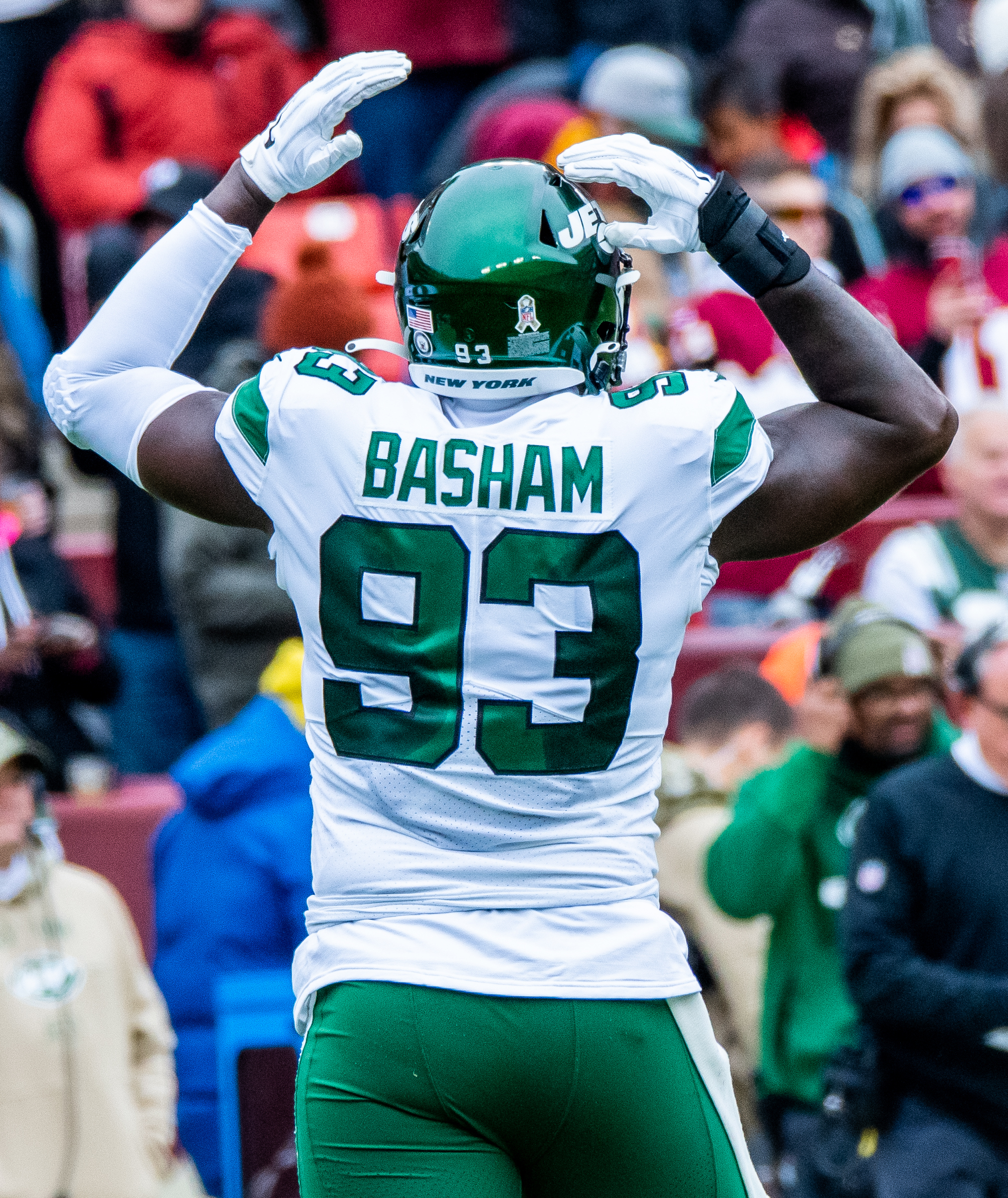 In 2019